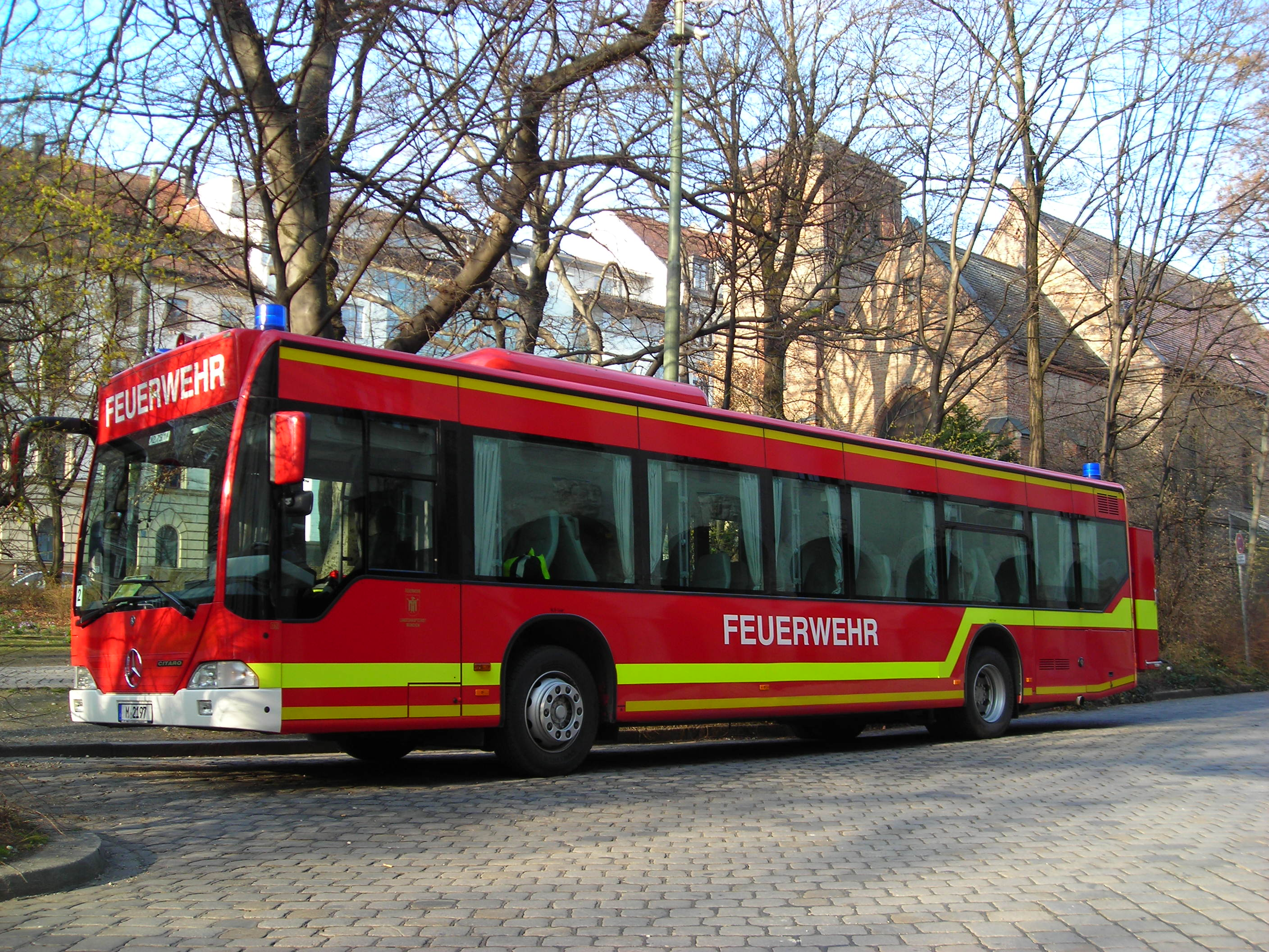 Mercedes-Benz Citaro Bus used by Feuerwehr München, Germany.